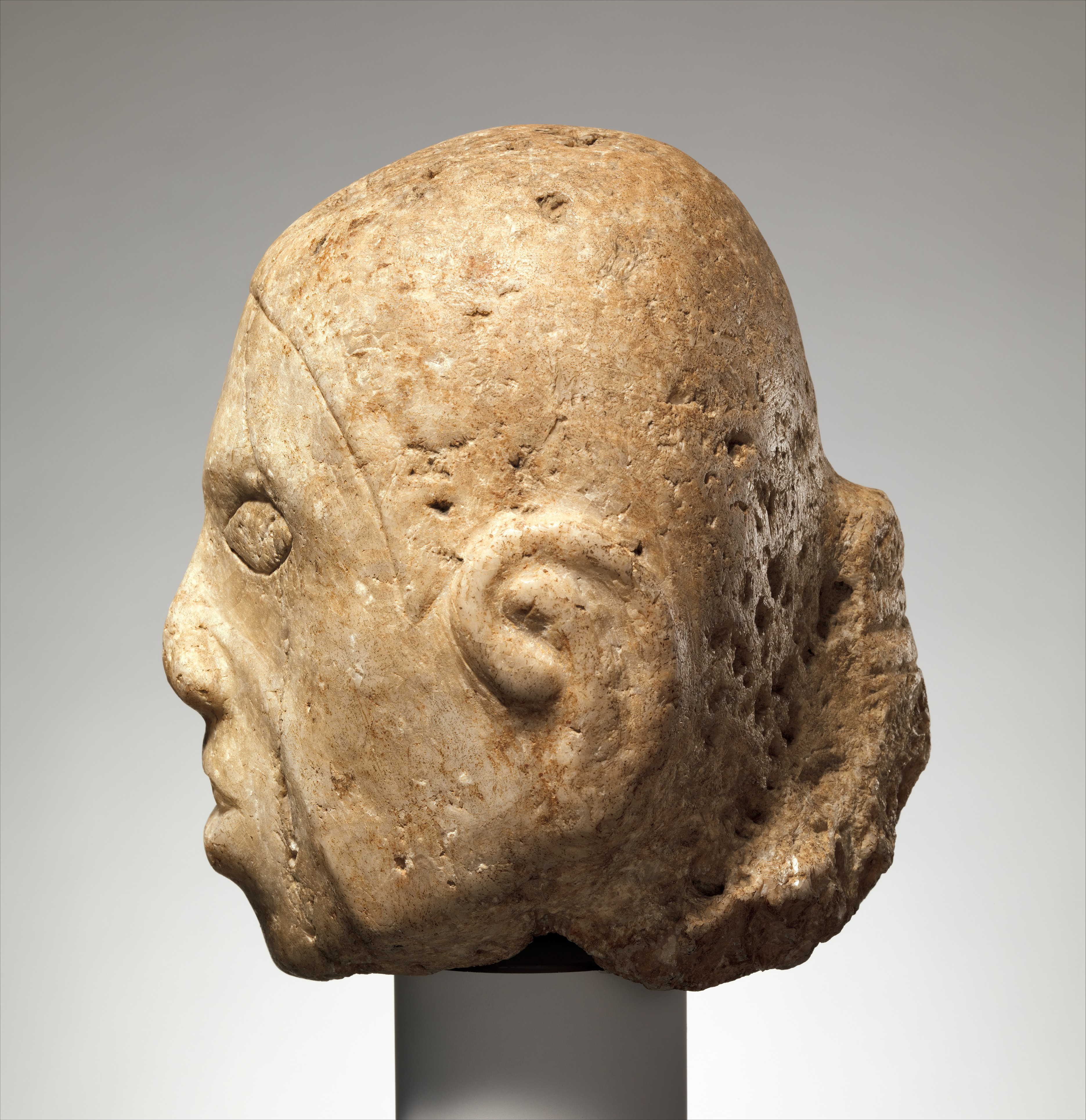 Mississippian; Head; Stone-Sculpture